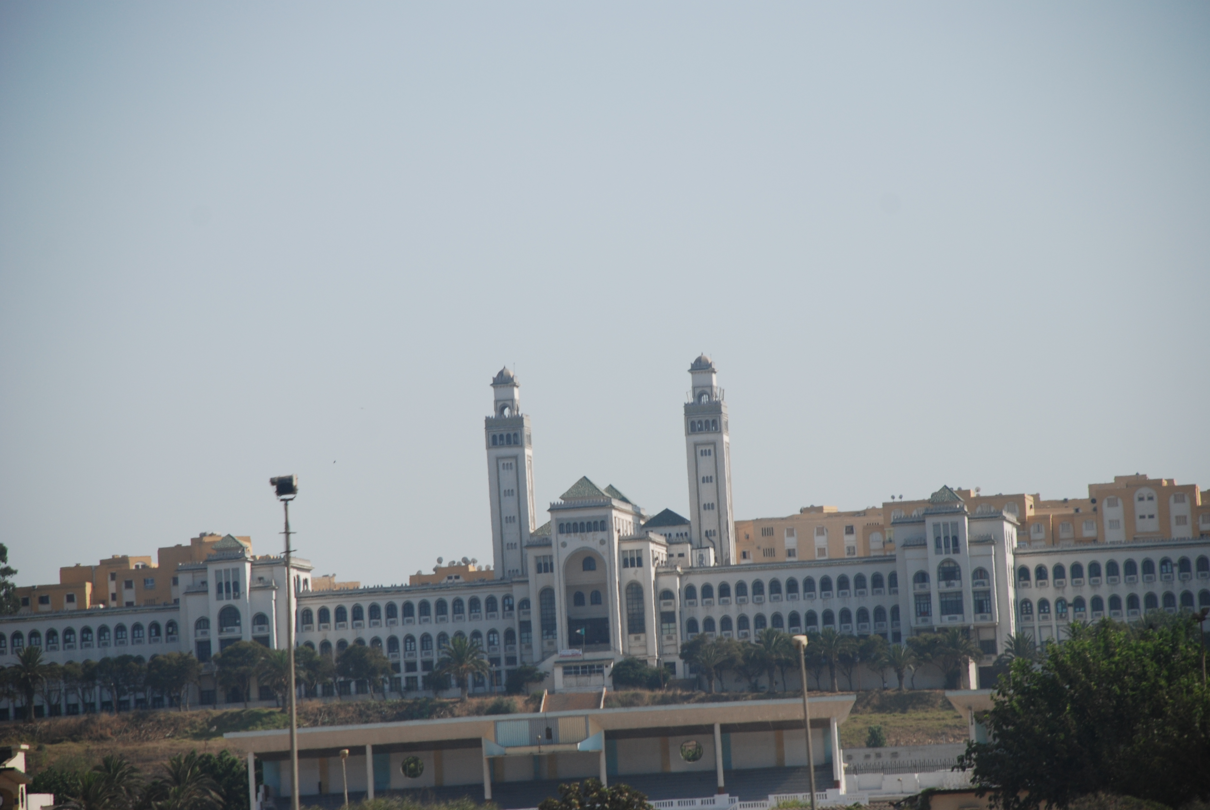 Caroubier University - Hussein Dey - Wilaya of Algiers